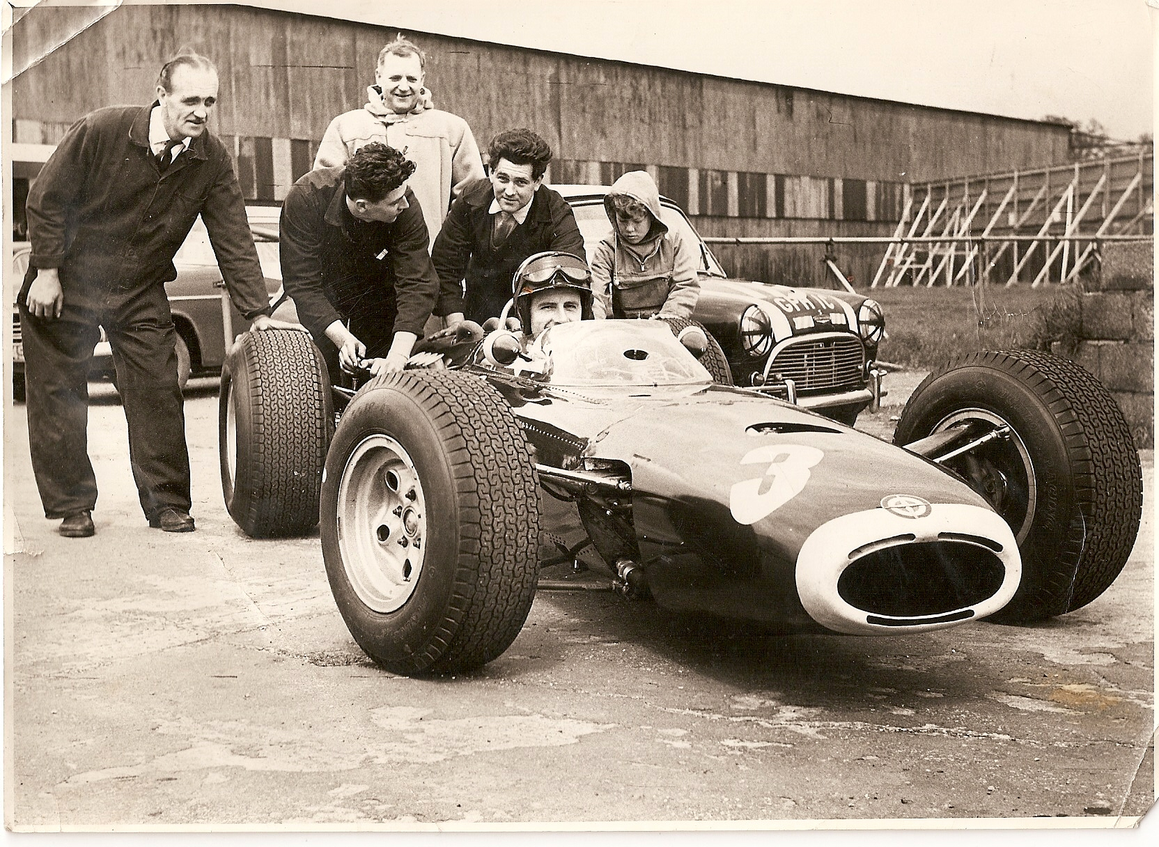 Graham Hill Photograph